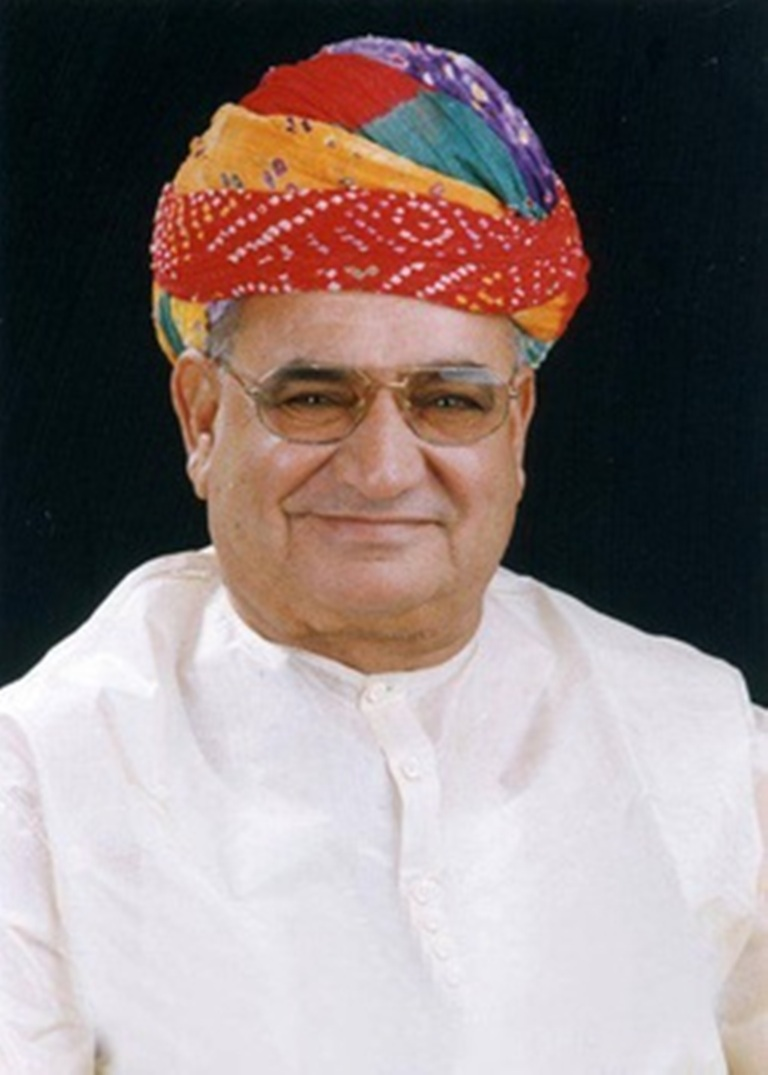 Ram Singh Sab